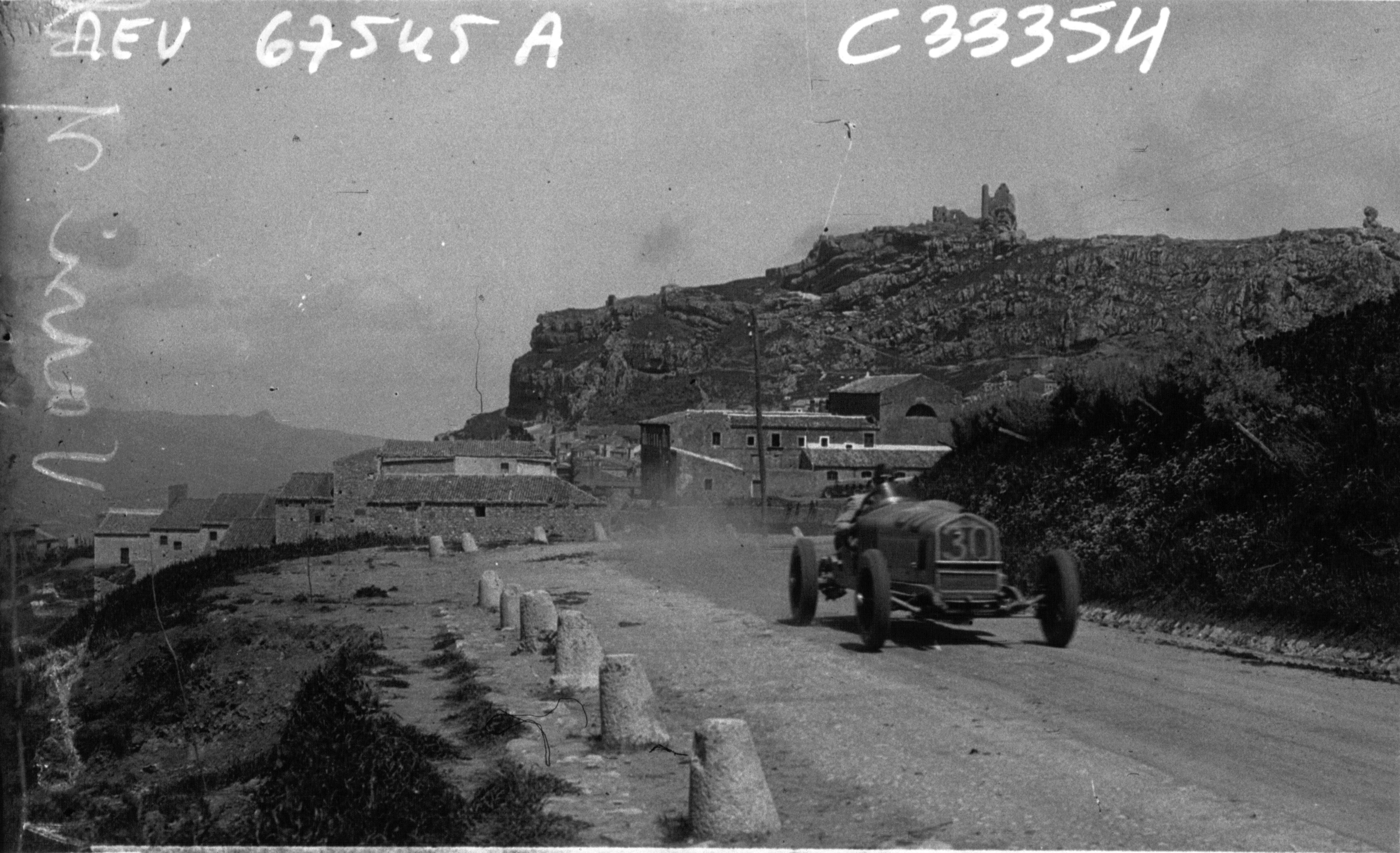 Achille Varzi in his Alfa Romeo at the 1929 Targa Florio.